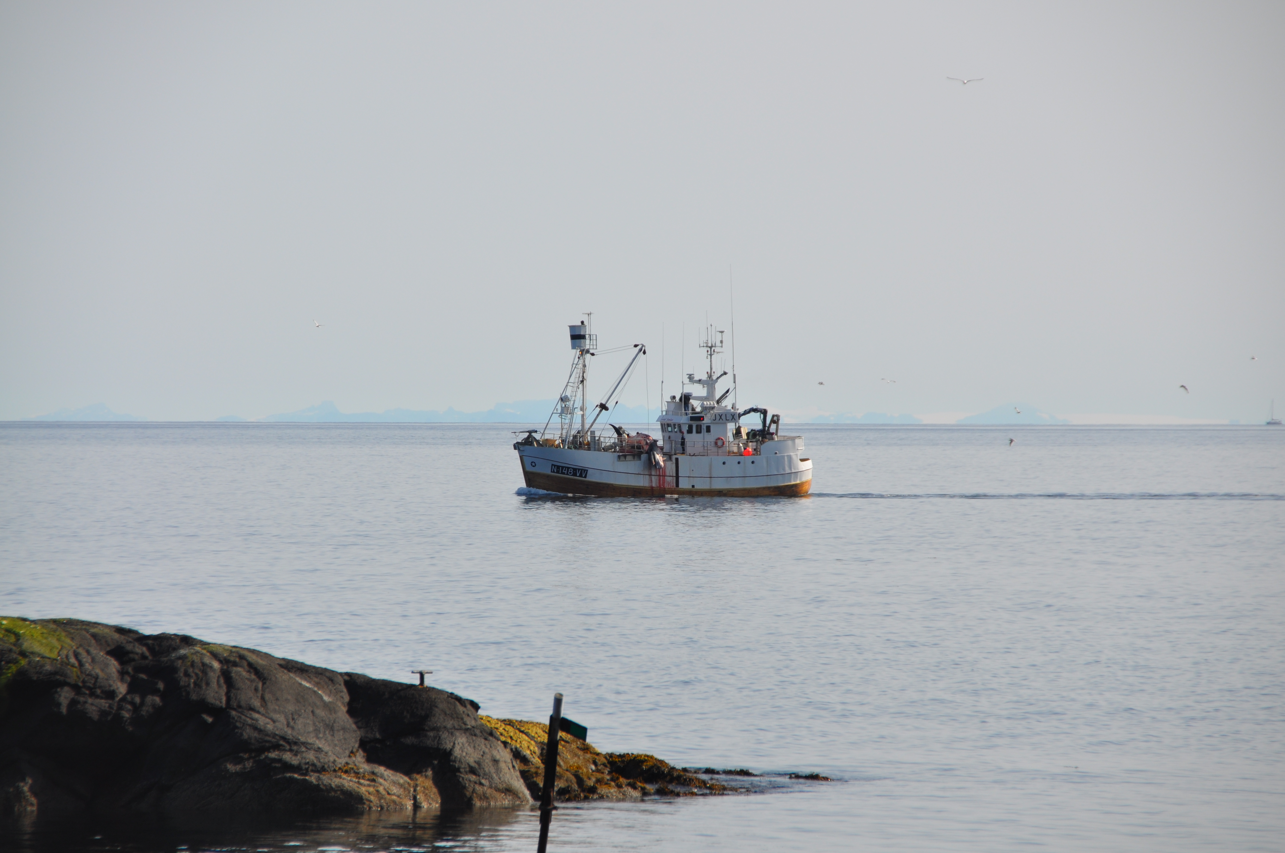 Whaler in Lofoten has just shot a whale which is seen on the ships side. .